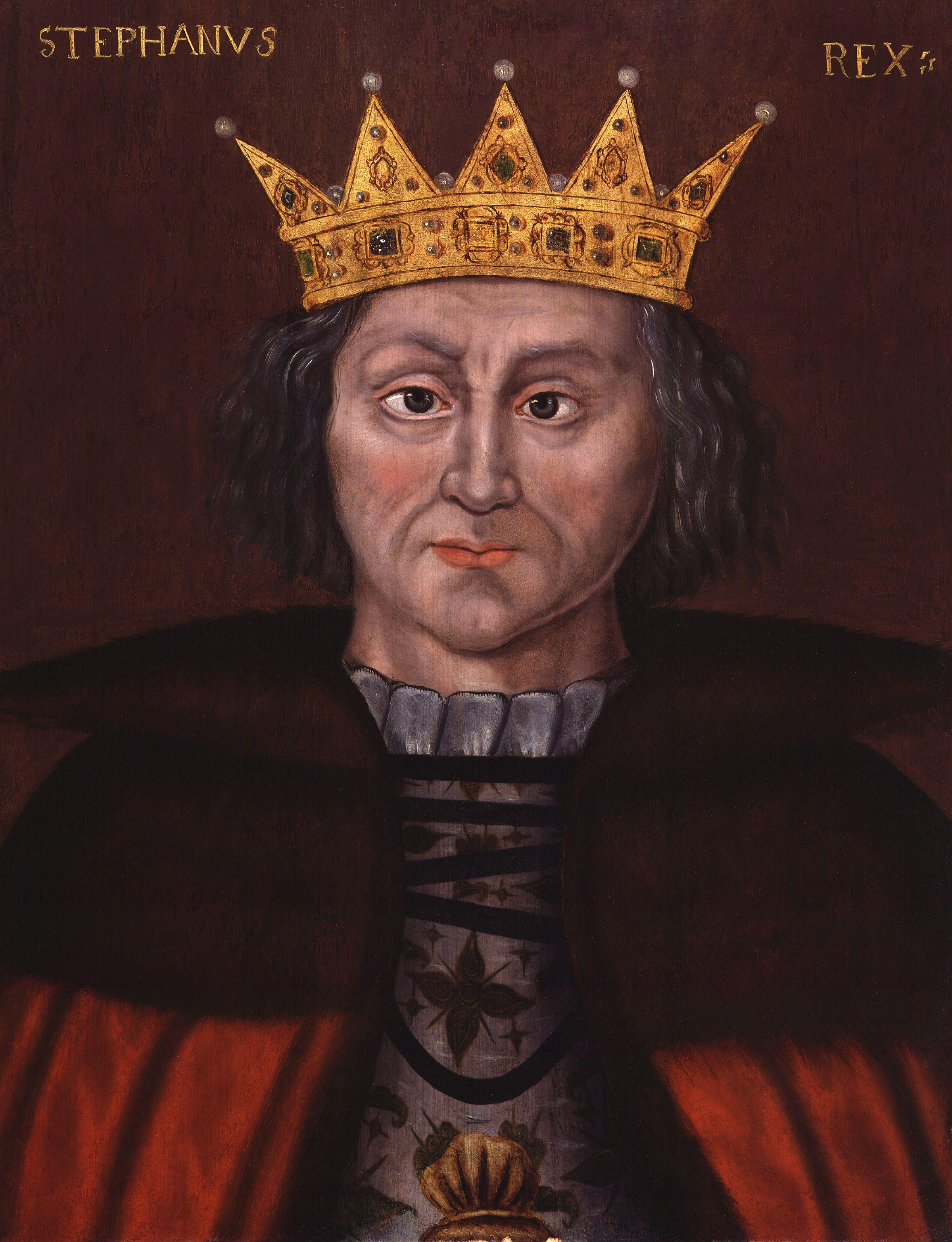 King Stephen, by unknown artist. All images in this batch are listed as "unknown author" by the NPG, who is diligent in researching authors, and was donated to the NPG before 1939 according to their website.